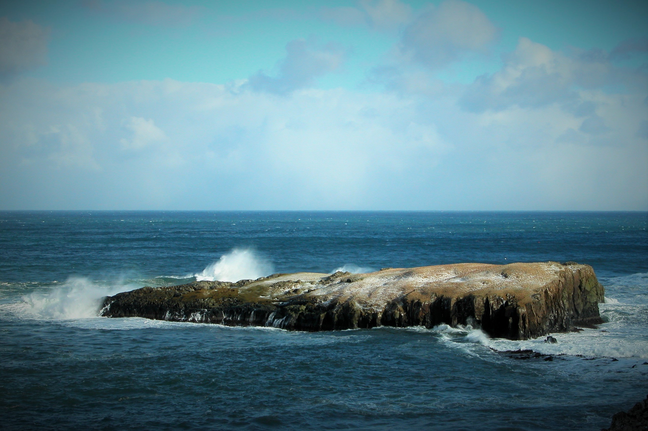 Hovshólmur, Suðuroy, Faroe Islands